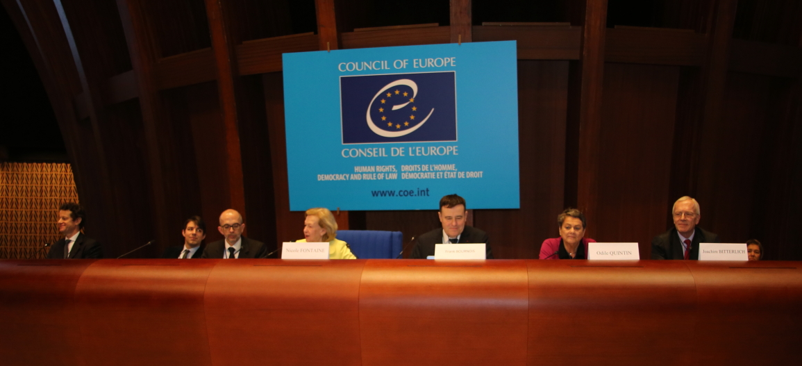 Conseil de l'Europe - Joachim Bitterlich/Frank Bournois/Andreas Kaplan/Nicole Fontaine/Andreas Kaplan/Odile Quintin